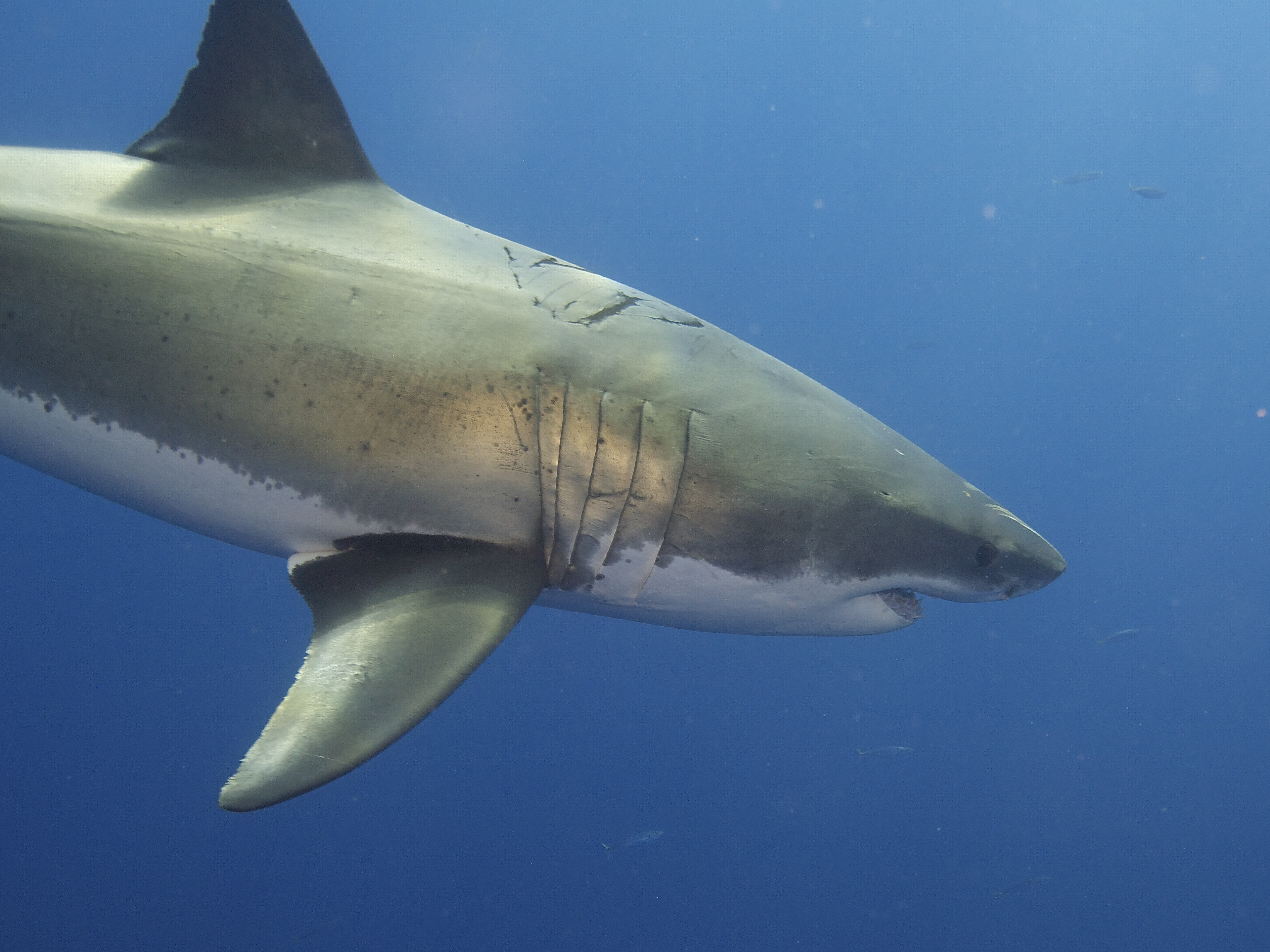 Great White Shark